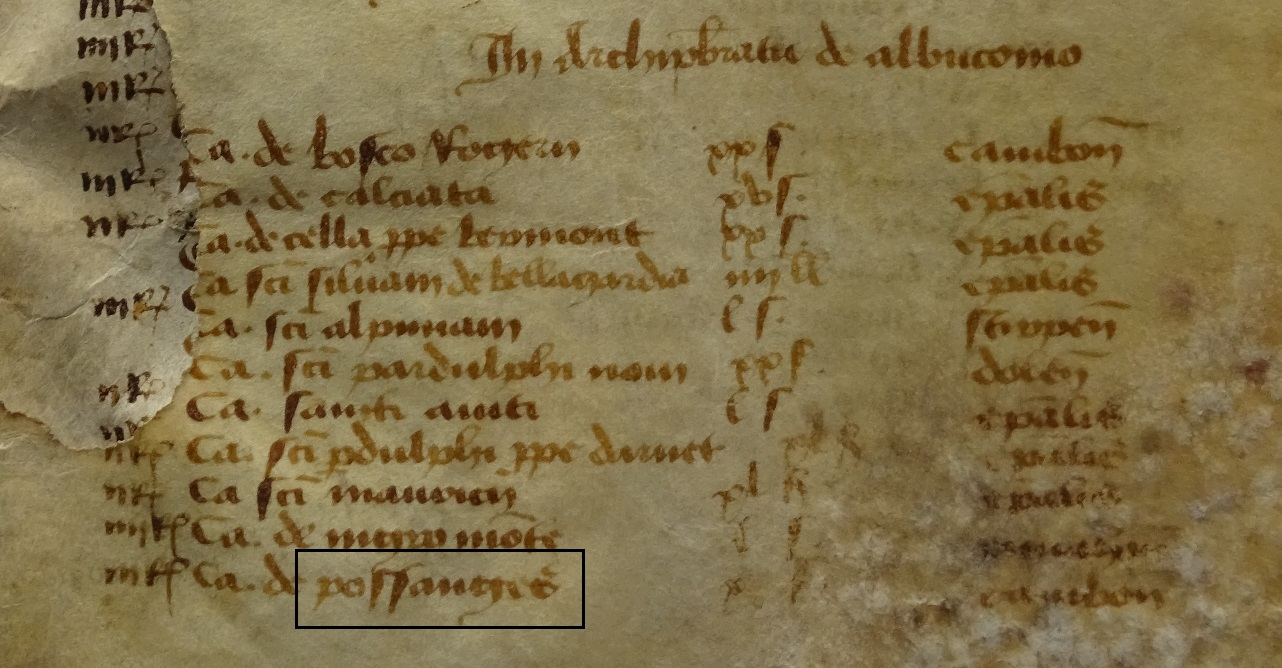 Extrait du Pouillé de 1315. Ancien diocèse de Limoges (Source : Archi.dept.23)